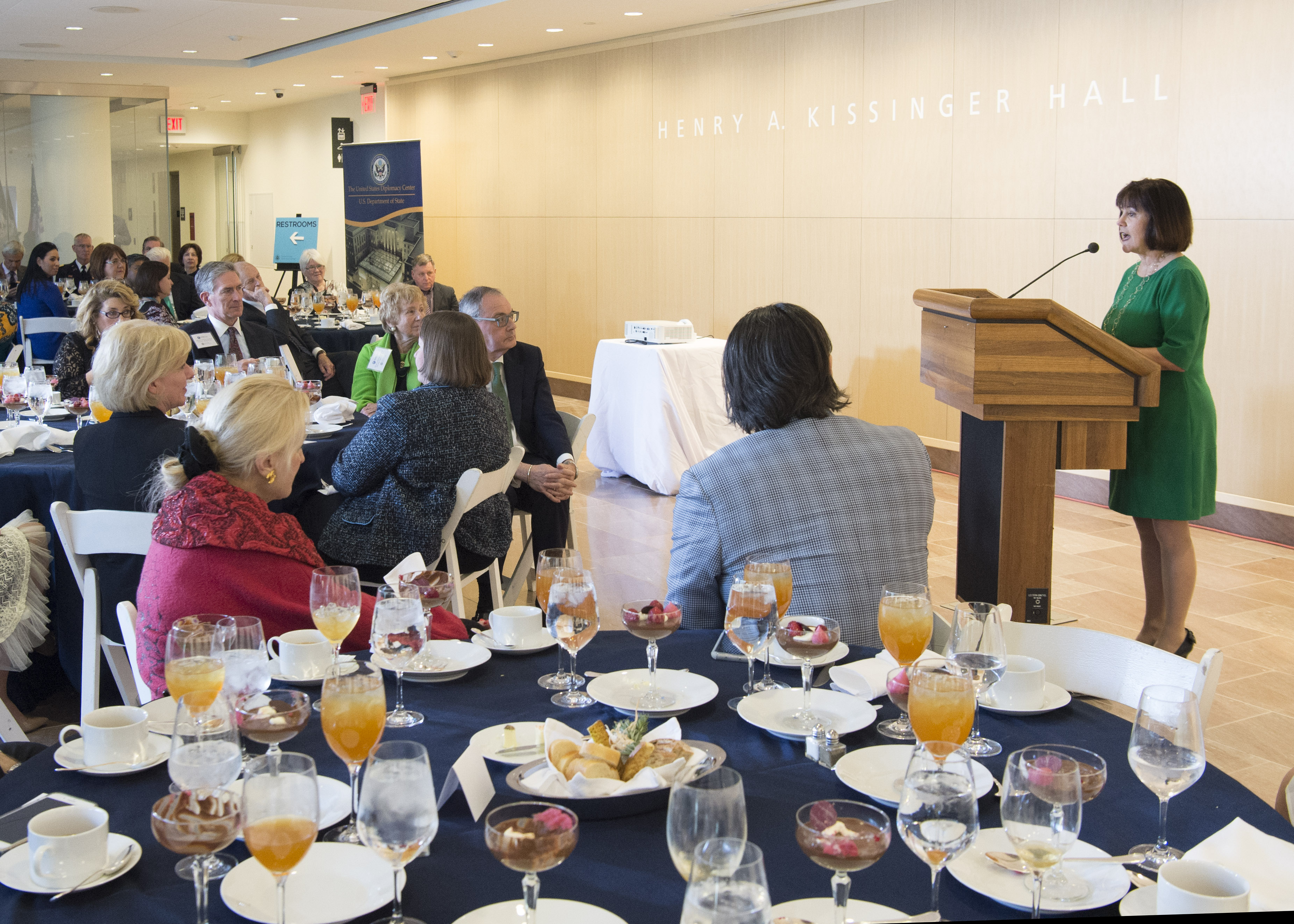 Second Lady Karen Pence delivers remarks at the Sister Cities International’s Spring Leadership Meeting in Washington, D.C., March 16, 2017. [State Department photo/ Public Domain]